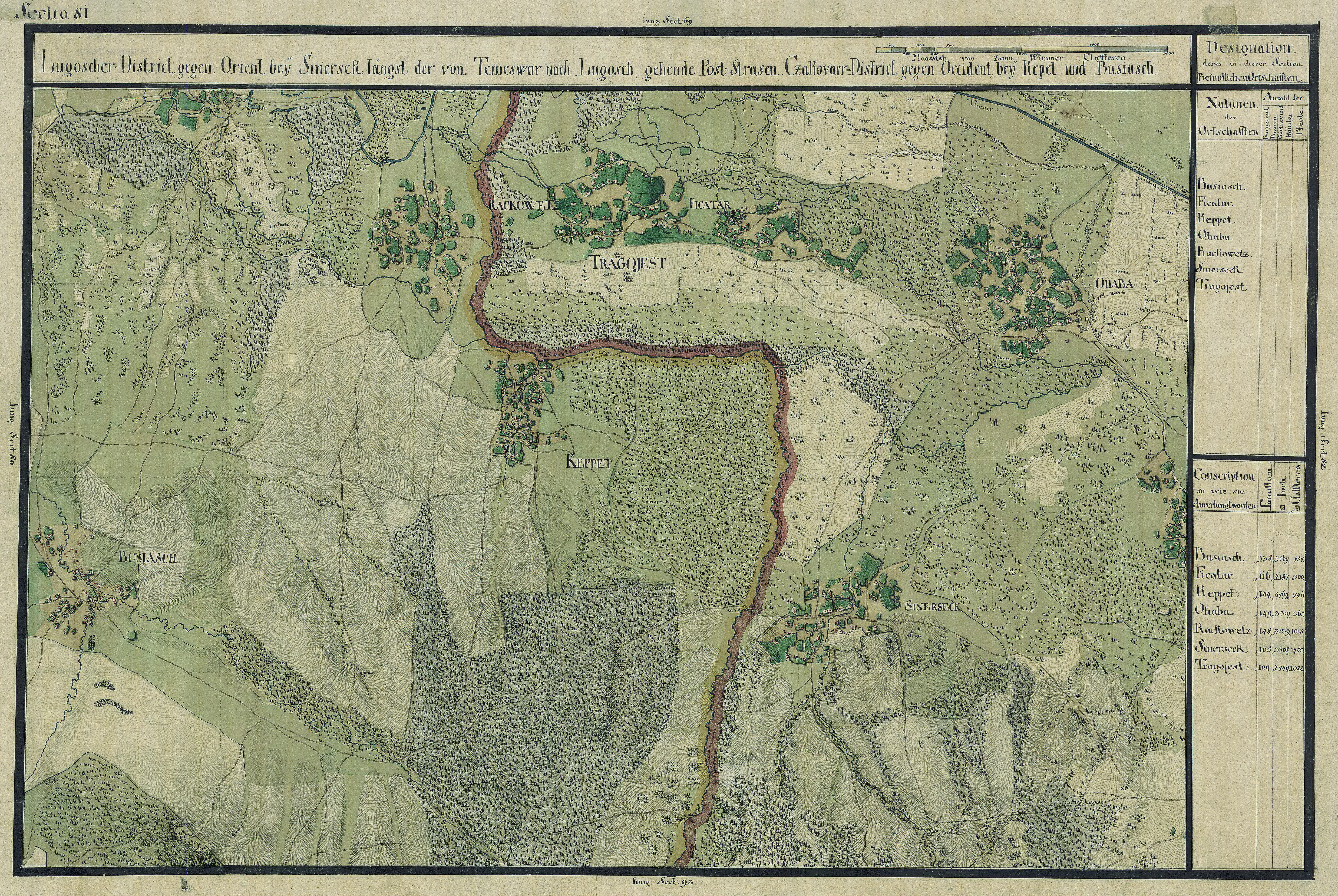 The Banat region in the cadastral maps: Josephinische Landesaufnahme, 1769-72. Josephinische Landaufnahme pg081